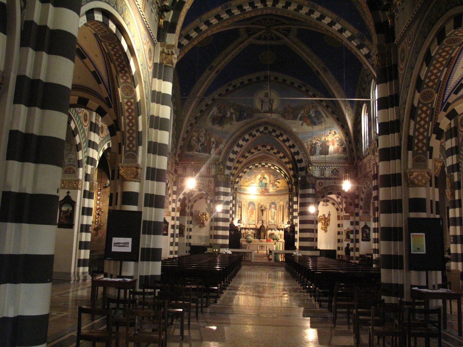 Basilica di Sant'Eufemia - Milan - interior. Apse frescos by Agostino Caironi (1820-1907), Triunphal arch fresco by Luigi Cavenaghi (1844-1918)